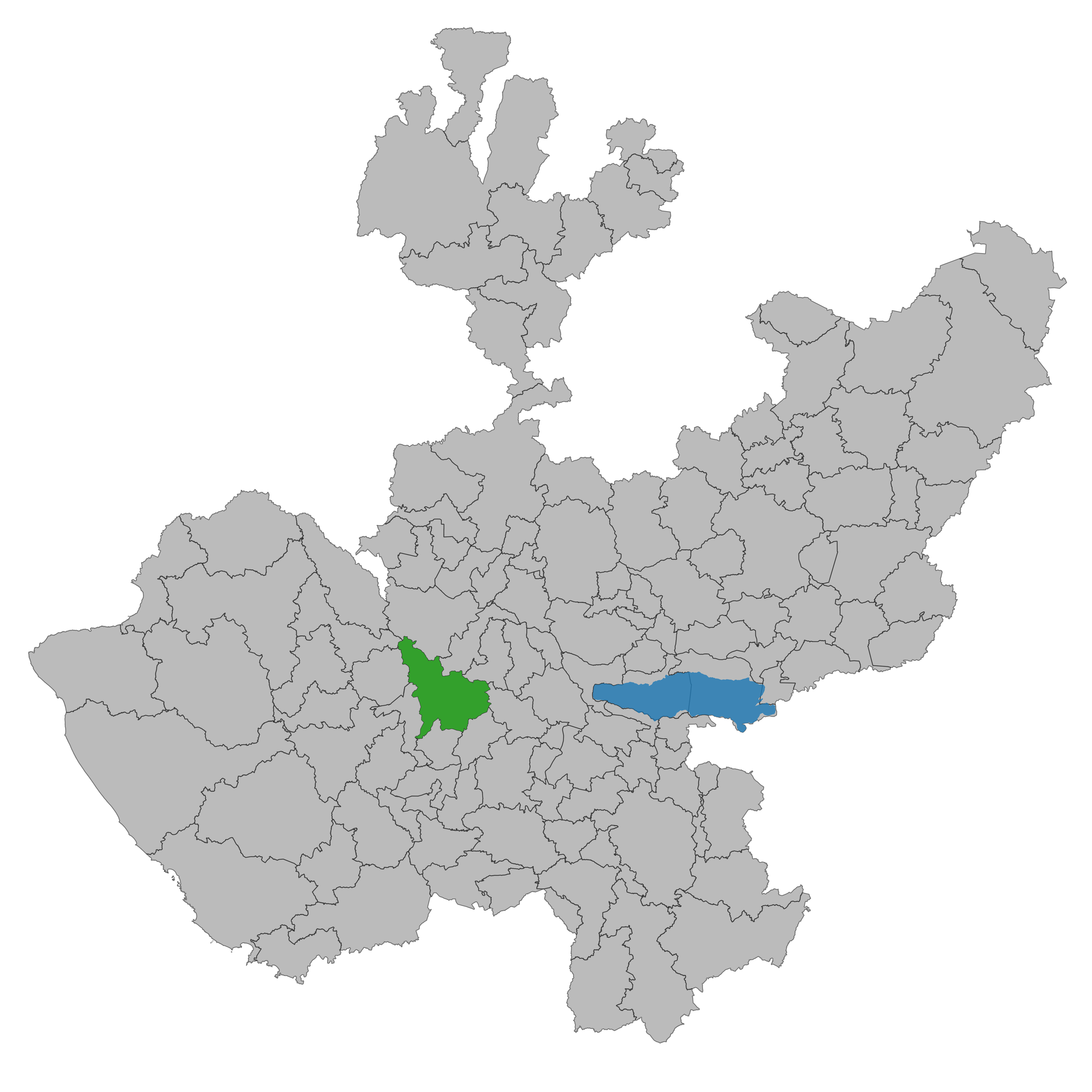 Municipality of Jalisco. Prepared with the software QGIS version 2.8.2 Wien & with information of SCINCE 2010 version 05/2013